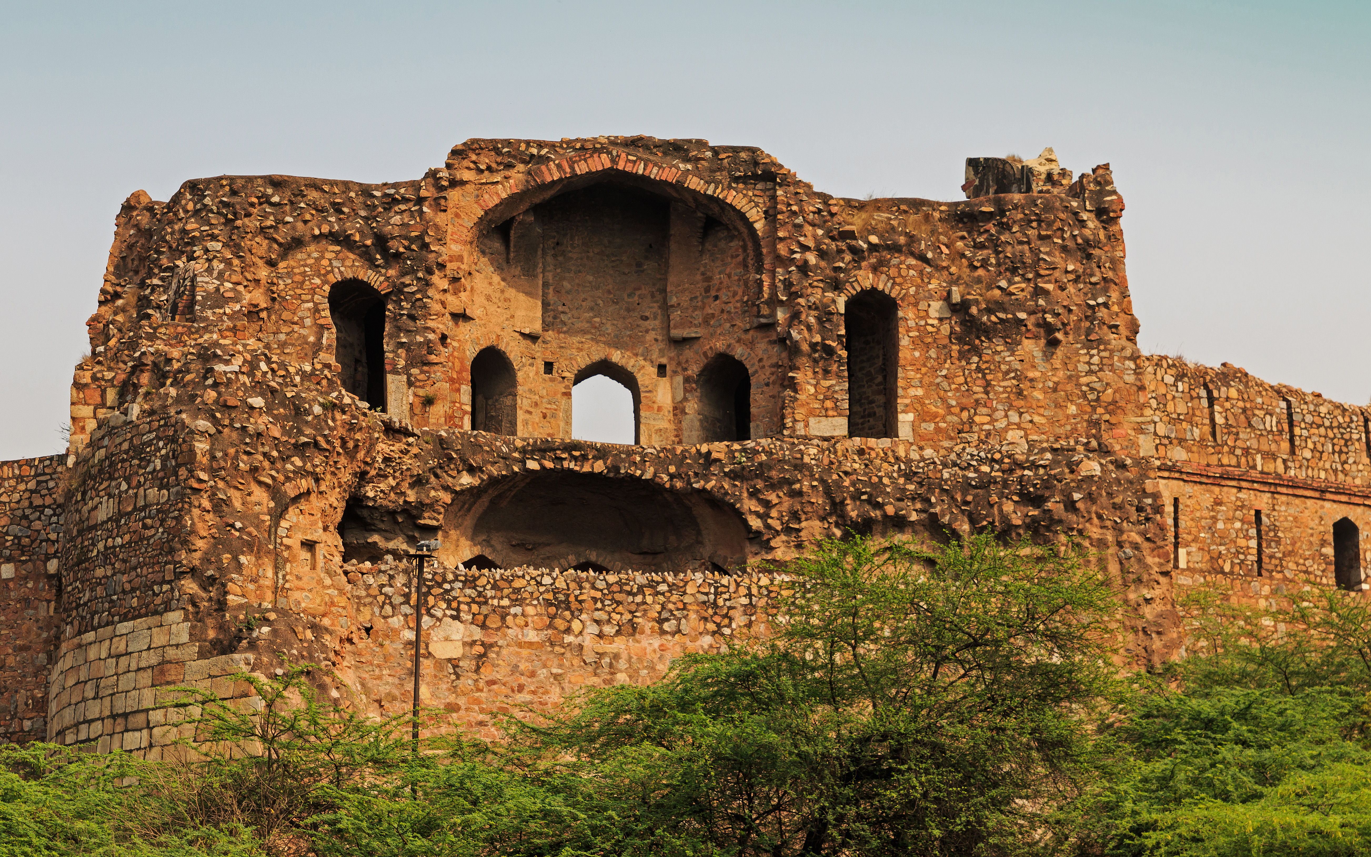 Purana Qila / Old Fort in Delhi, India